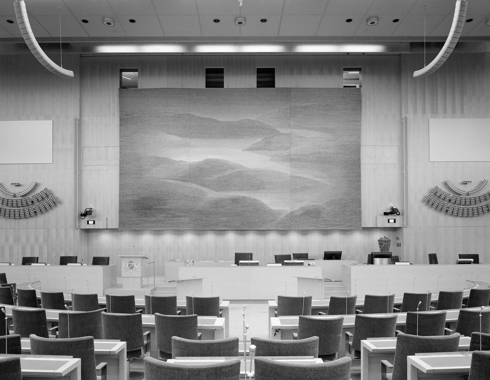 Memory of a Landscape, tapestry. Interior from Assembly hall, House of Parliament, Stockholm, Sweden